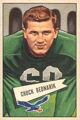 Here is a 1952 Bowman Large Football Card of #10 Chuck Bednarik of the Philadelphia Eagles. Card is in public domain, PD not renewed.